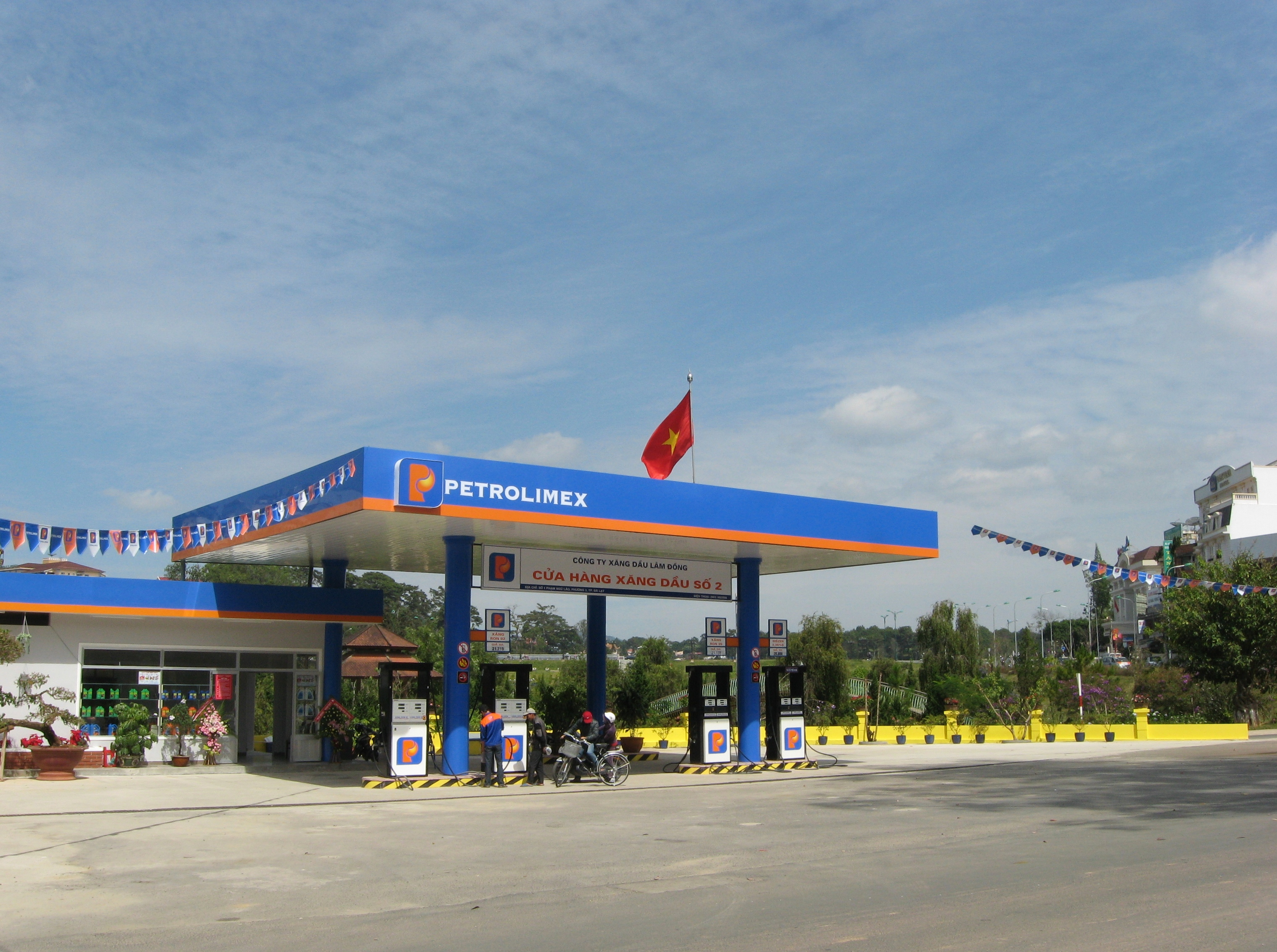 Petrol station, Pham Ngu Lao street, Da Lat